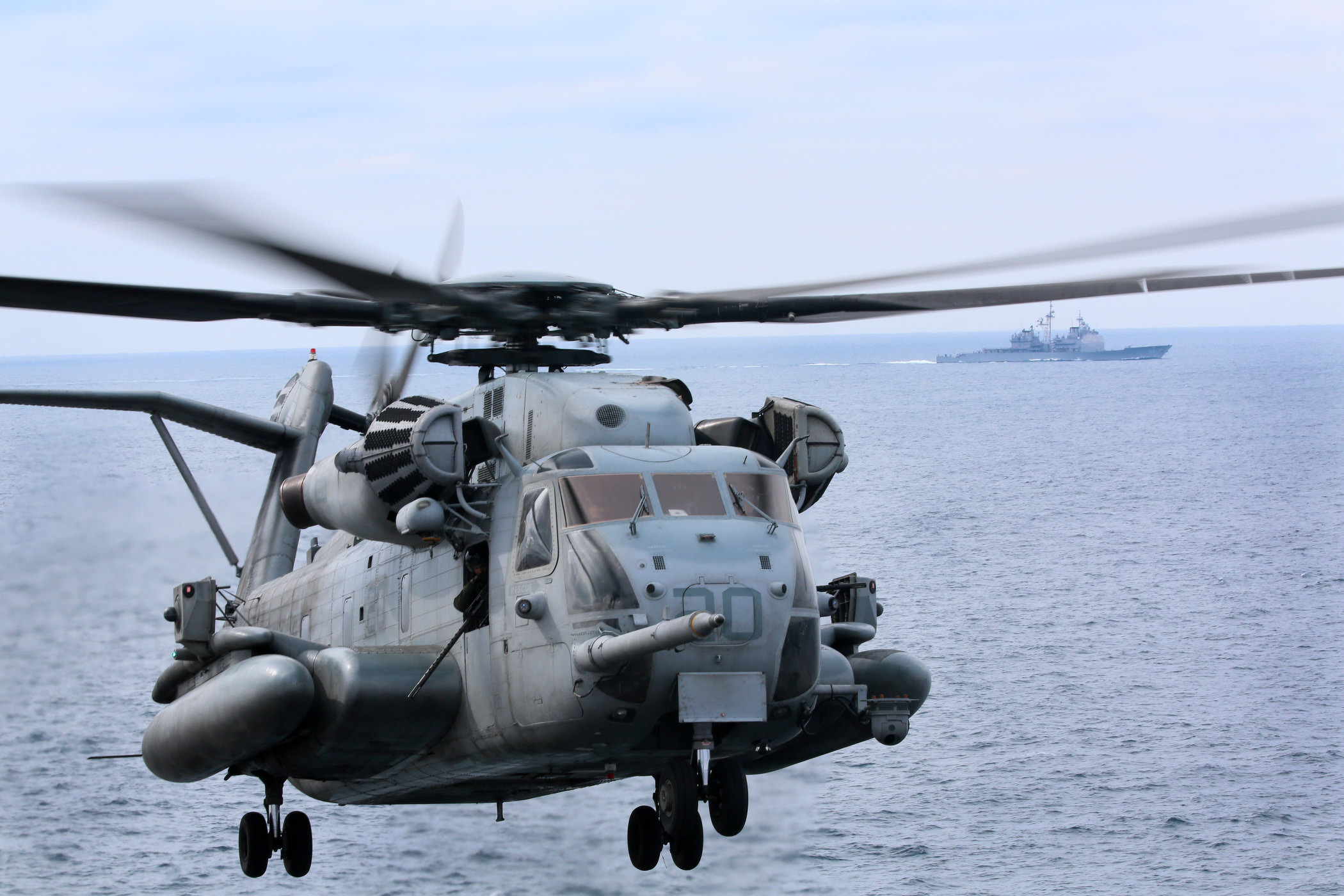 ATLANTIC OCEAN (Feb. 14, 2013) A CH-53E Super Stallion from Marine Medium Tiltrotor Squadron (VMM) 266 (Rein.) conducts flight operations near the guided-missile cruiser USS Anzio (CG 68) and the amphibious assault ship USS Kearsarge (LHD 3). Kearsarge is participating in Composite Training Unit Exercise (COMPTUEX) off the East Coast of the U.S. in preparation for an deployment this spring. (U.S. Navy photo by Mass Communication Specialist 2nd Class Jonathan Vargas/Released) 130214-N-GF386-032 Join the conversation navylive.dodlive.mil